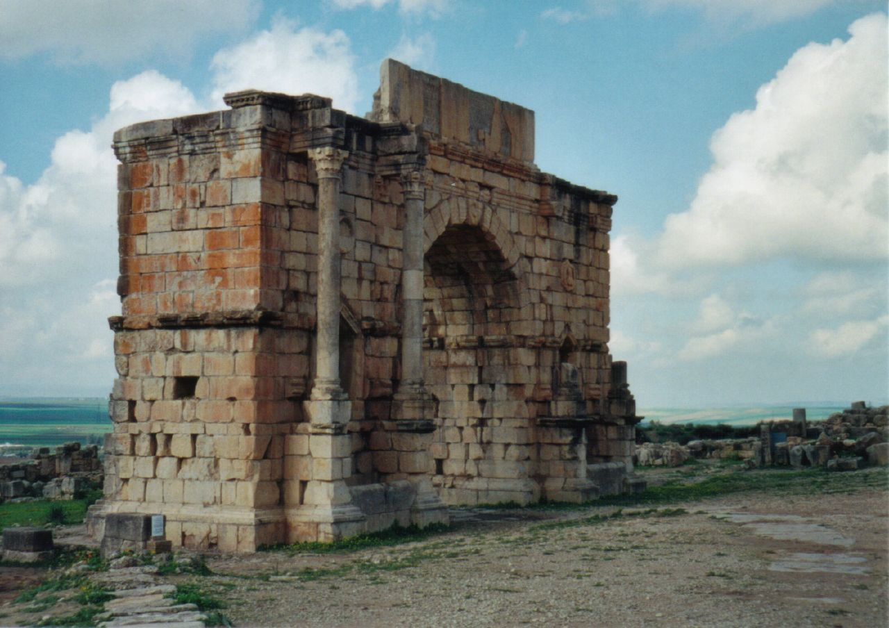 Massive Triumphal Arch